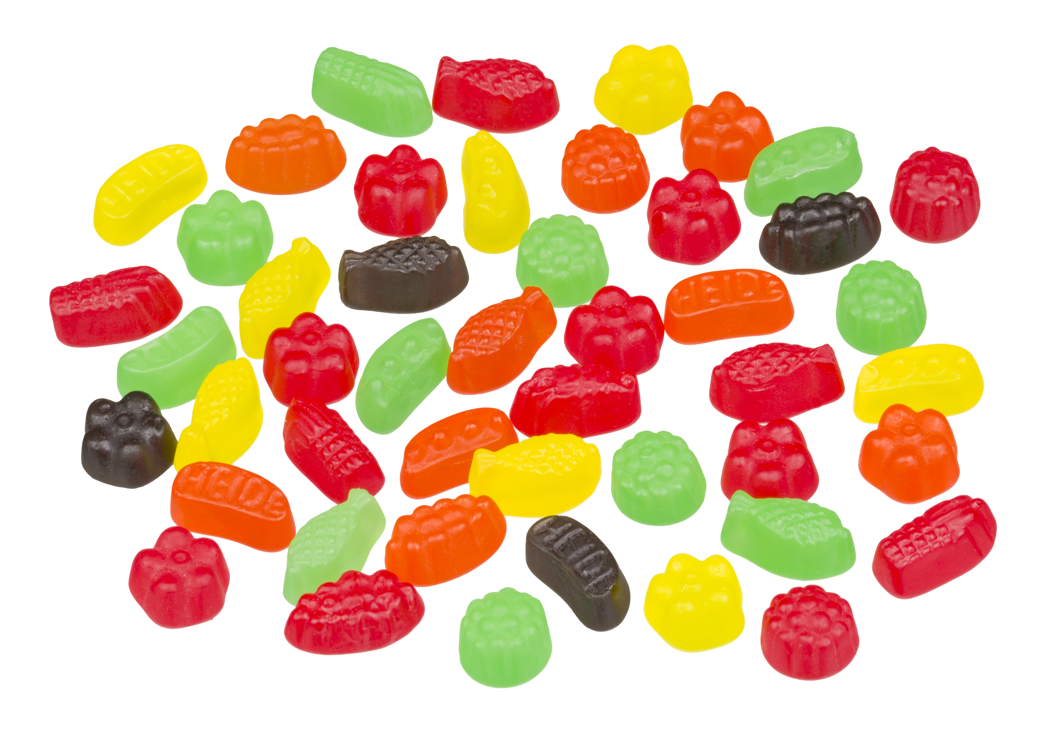 A pile of Jujyfruits, an American fruit-flavored sugar candy produced by Ferrara Candy Co.